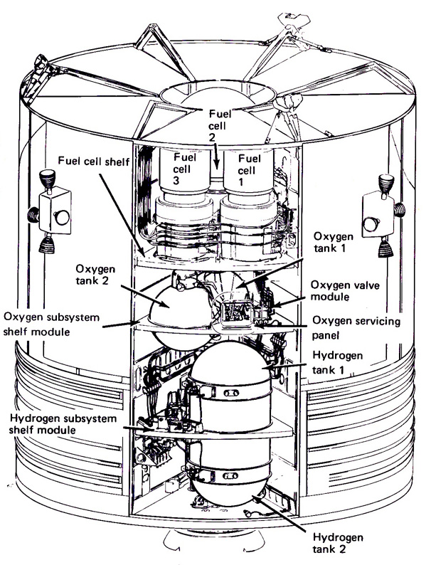 Apollo 13 Service Module and the location of the oxygen tanks relative to the other systems